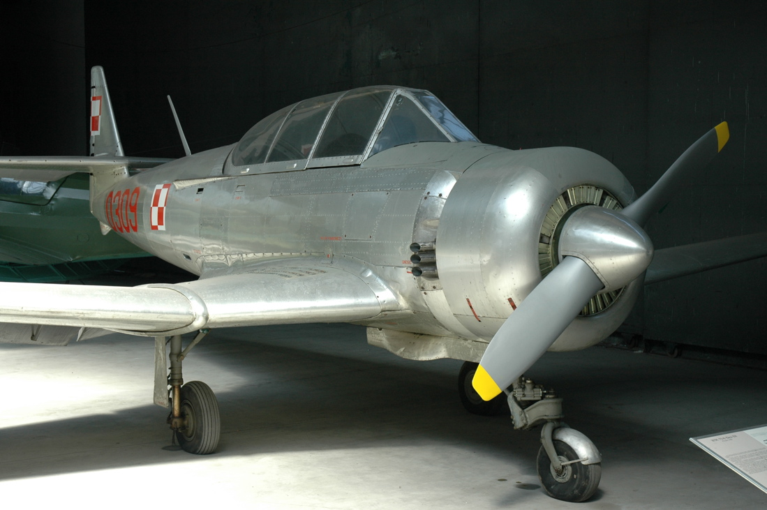 TS-8 Bies (Polish Aviation Museum, Cracow)